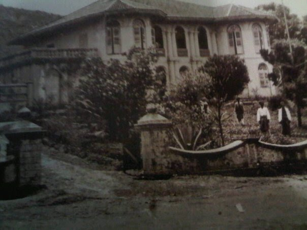 Istana Lama, Residence of the Temenggongs Abdul Rahman and Daeng Ibrahim in Singapore